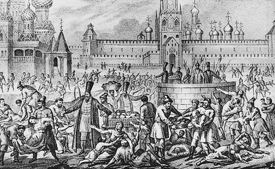 Great Famine in Moscow in 1601